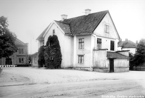 The old house "Manilla" in Örebro, Sweden